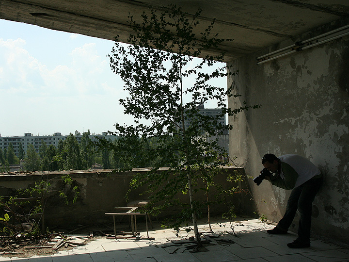 Trees growing from the floor or concrete? No problem in Pripyat. Picture taken in apartment of local hotel.